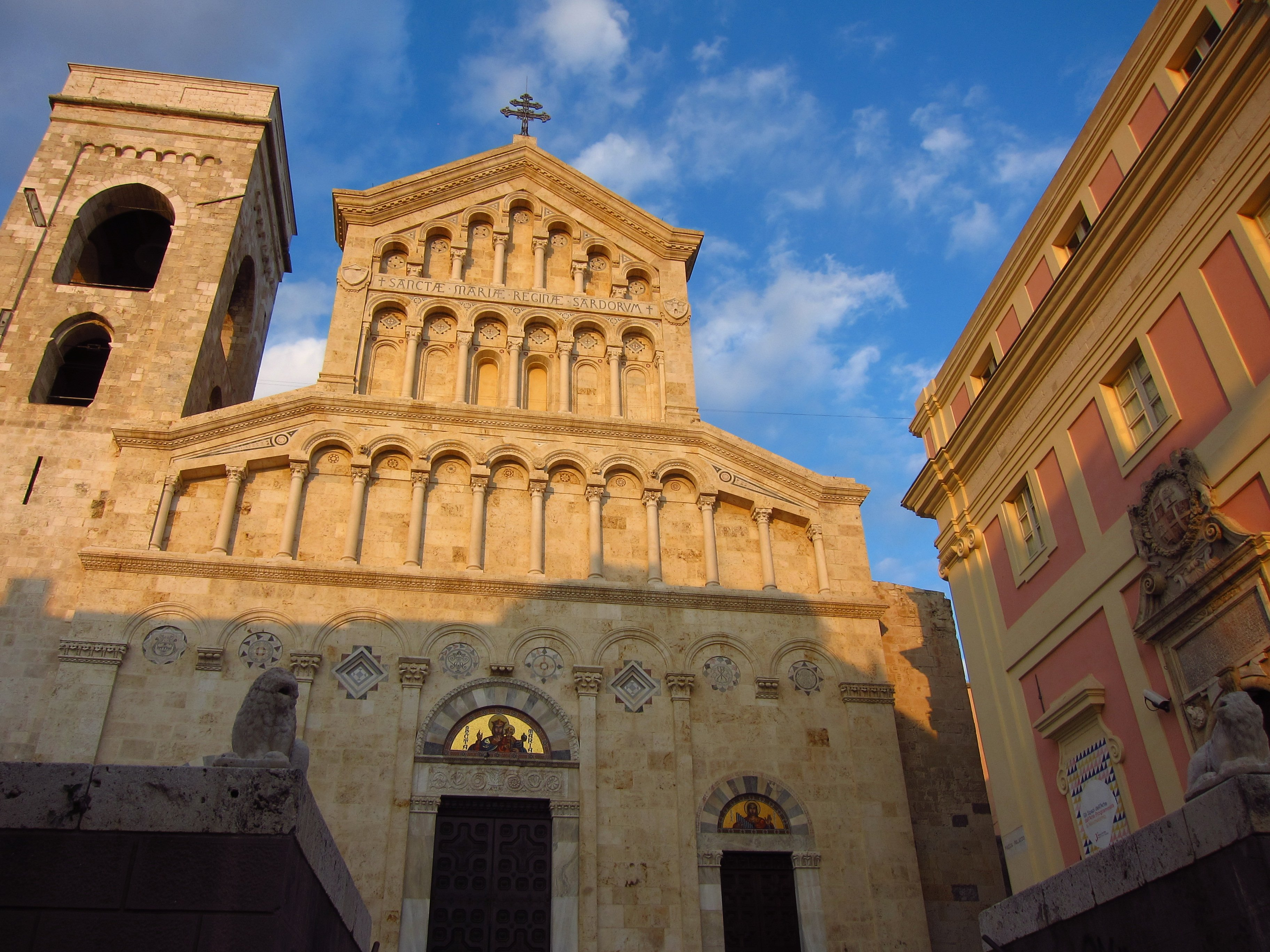 cagliari, sardinia, italy